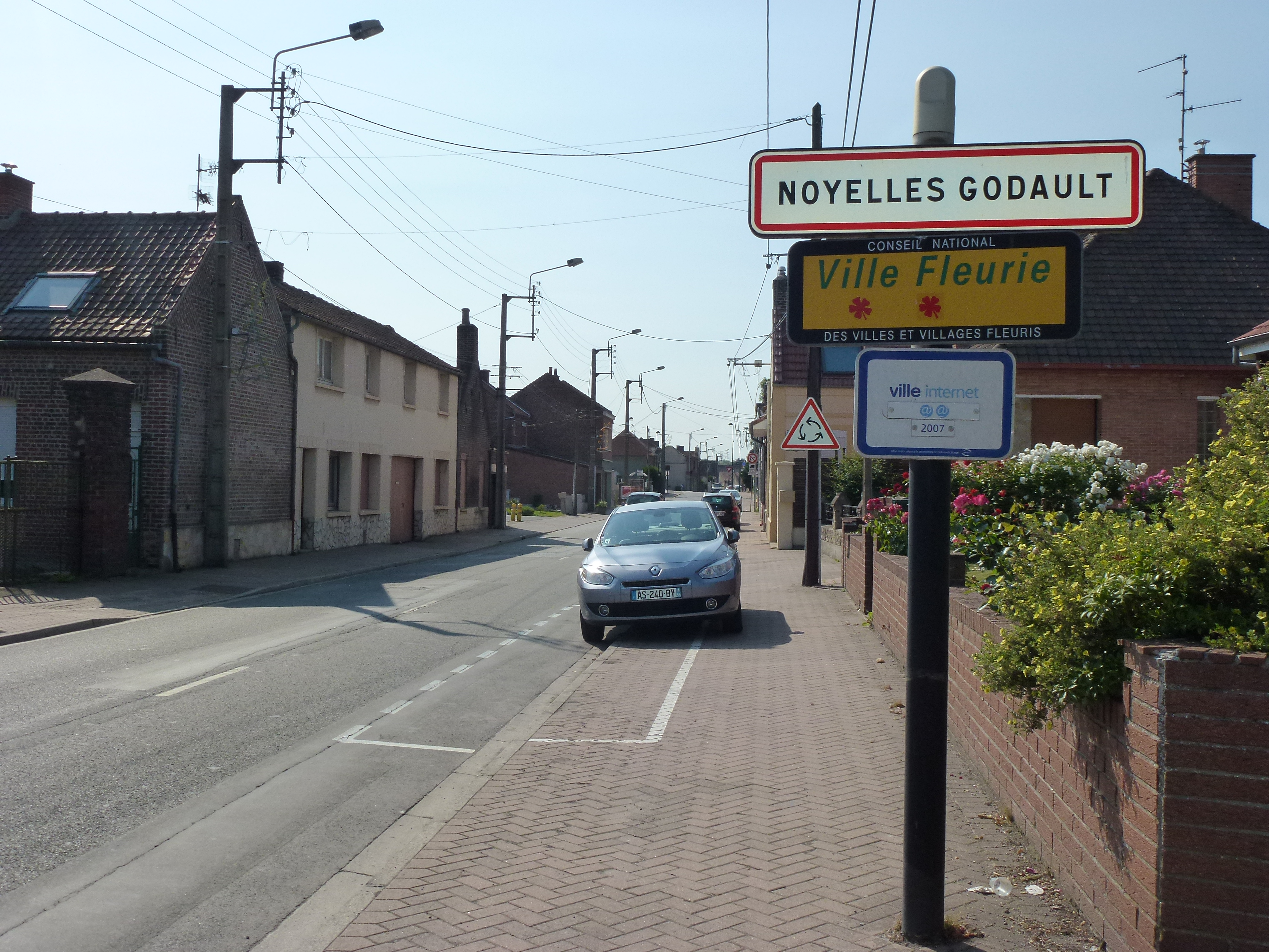 Noyelles-Godault (Pas-de-Calais) city limit sign